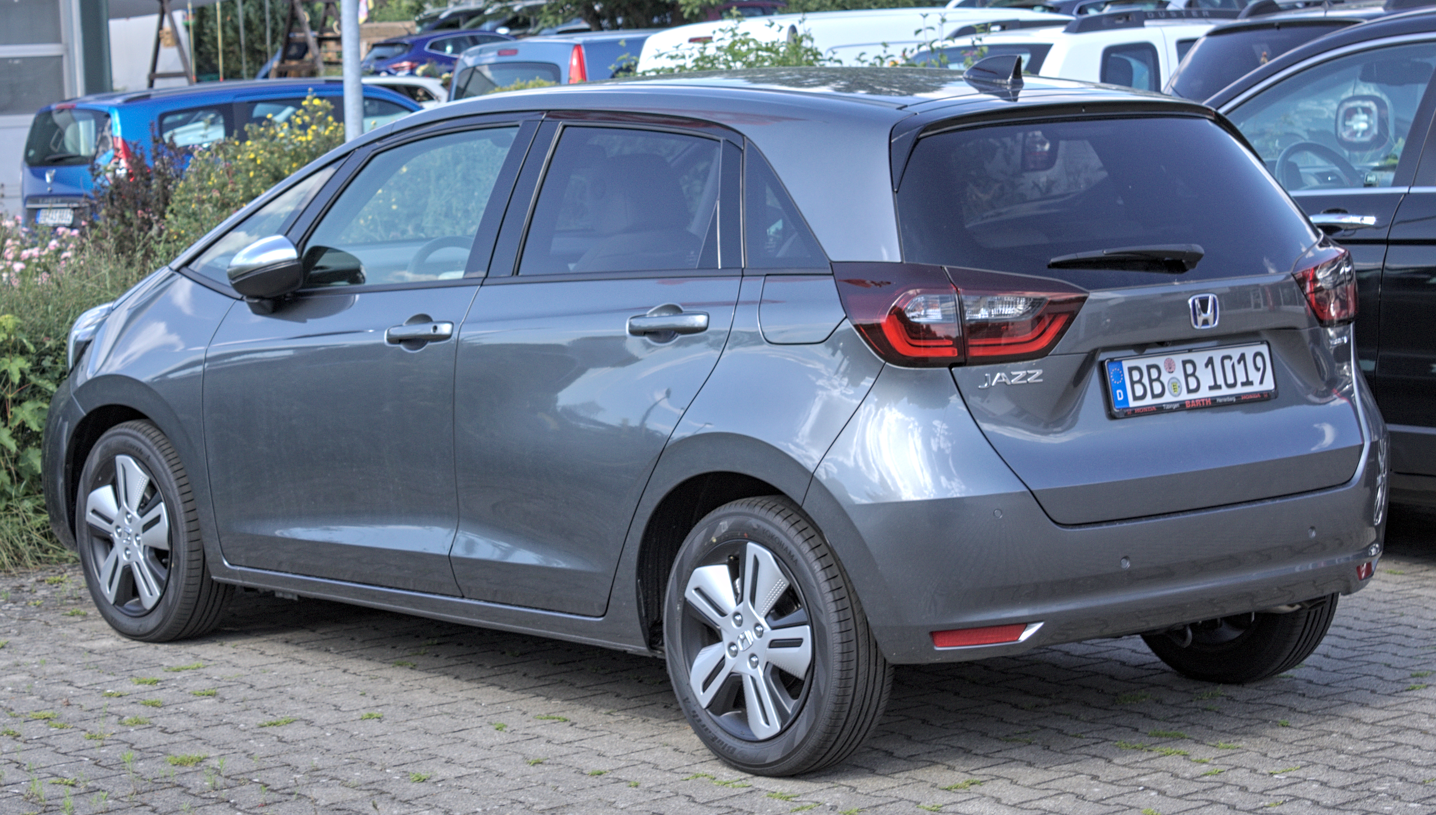 Honda_Jazz_(4th_generation) in Herrenberg